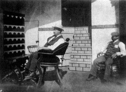 William Heise (left) on the set of Edison's movie What Demoralized the Barbershop in 1897 (film copyrighted in 1898)